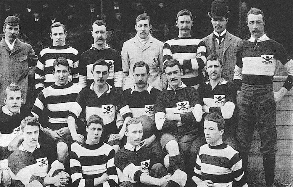 Barbarian F.C. rugby squad that played Devonshire at Exeter field.